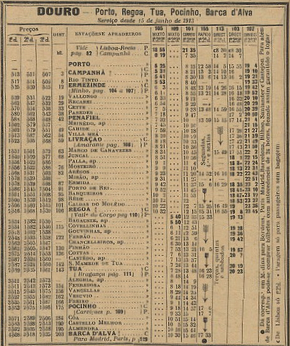 Timetable of the trains between Porto (São Bento) and Barca de Alva, in Portugal, on the 15th June 1913. This image was published on the Guia Official dos Caminhos de Ferro de Portugal No. 168, of October 1913, and scanned by the Biblioteca Nacional de Portugal.